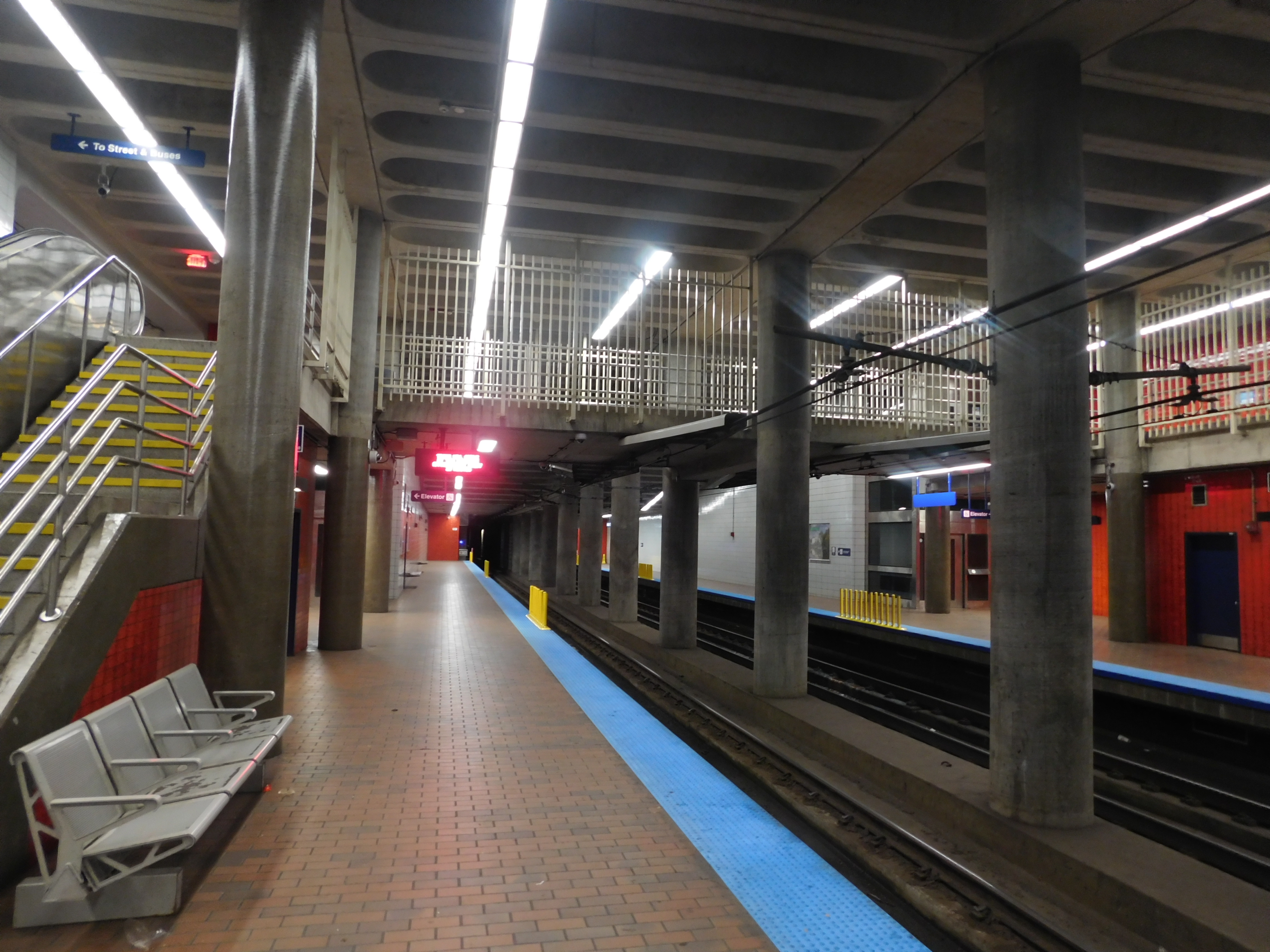 Summer-Best station of the Buffalo Metro Rail station in Buffalo, New York.